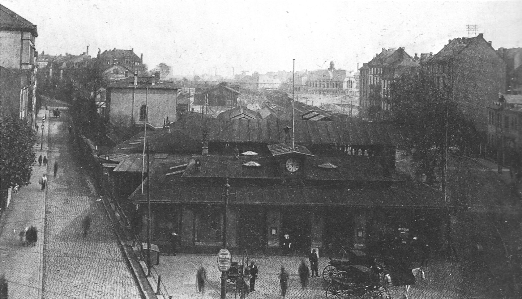 The Hanau station in eastern Frankfurt around 1900